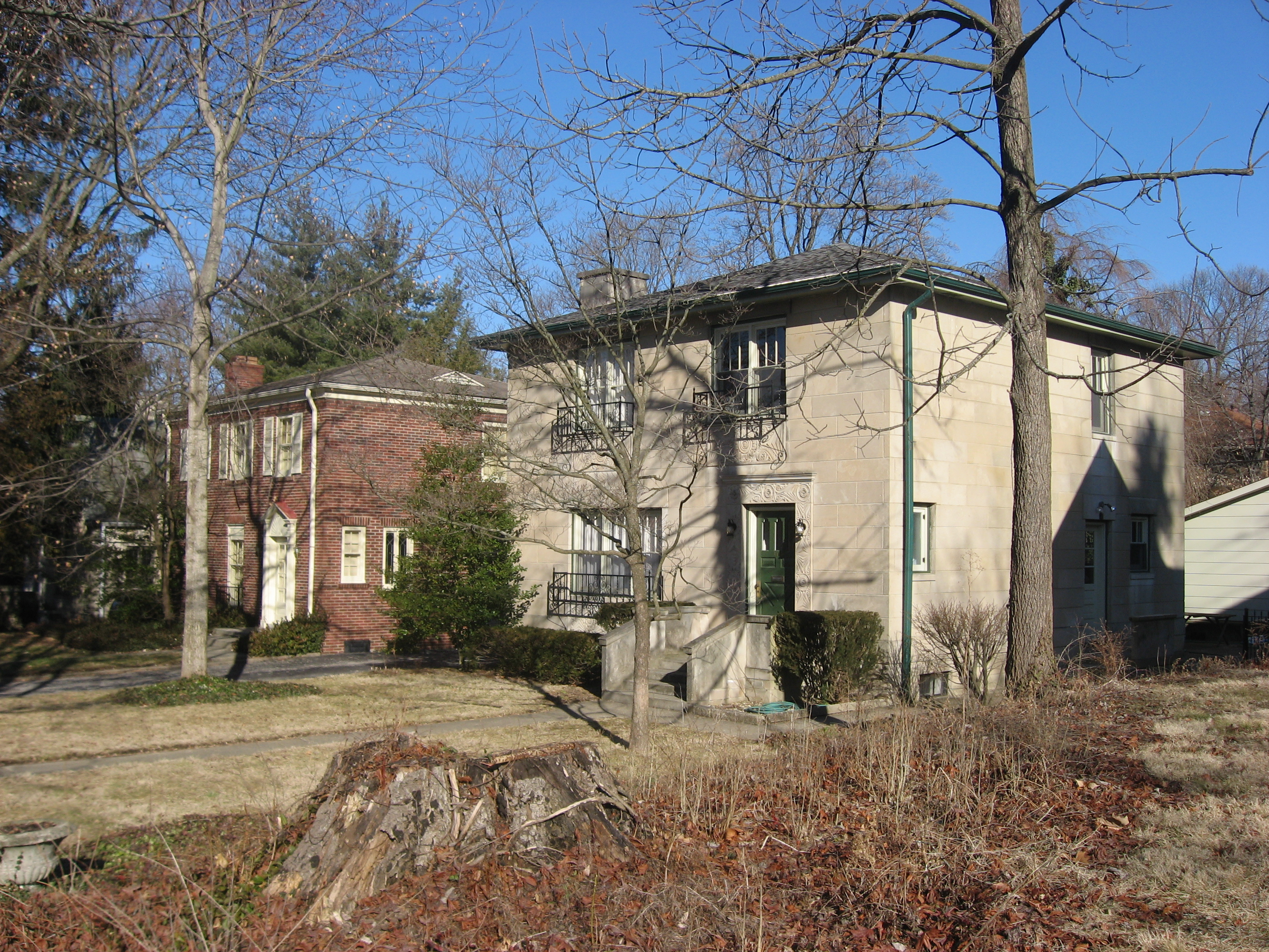 Houses on the northern side of the 1000 block of E. First Street in Bloomington, Indiana, United States. Built in 1935, these houses are part of the Vinegar Hill Historic District, a historic district that is listed on the National Register of Historic Places.